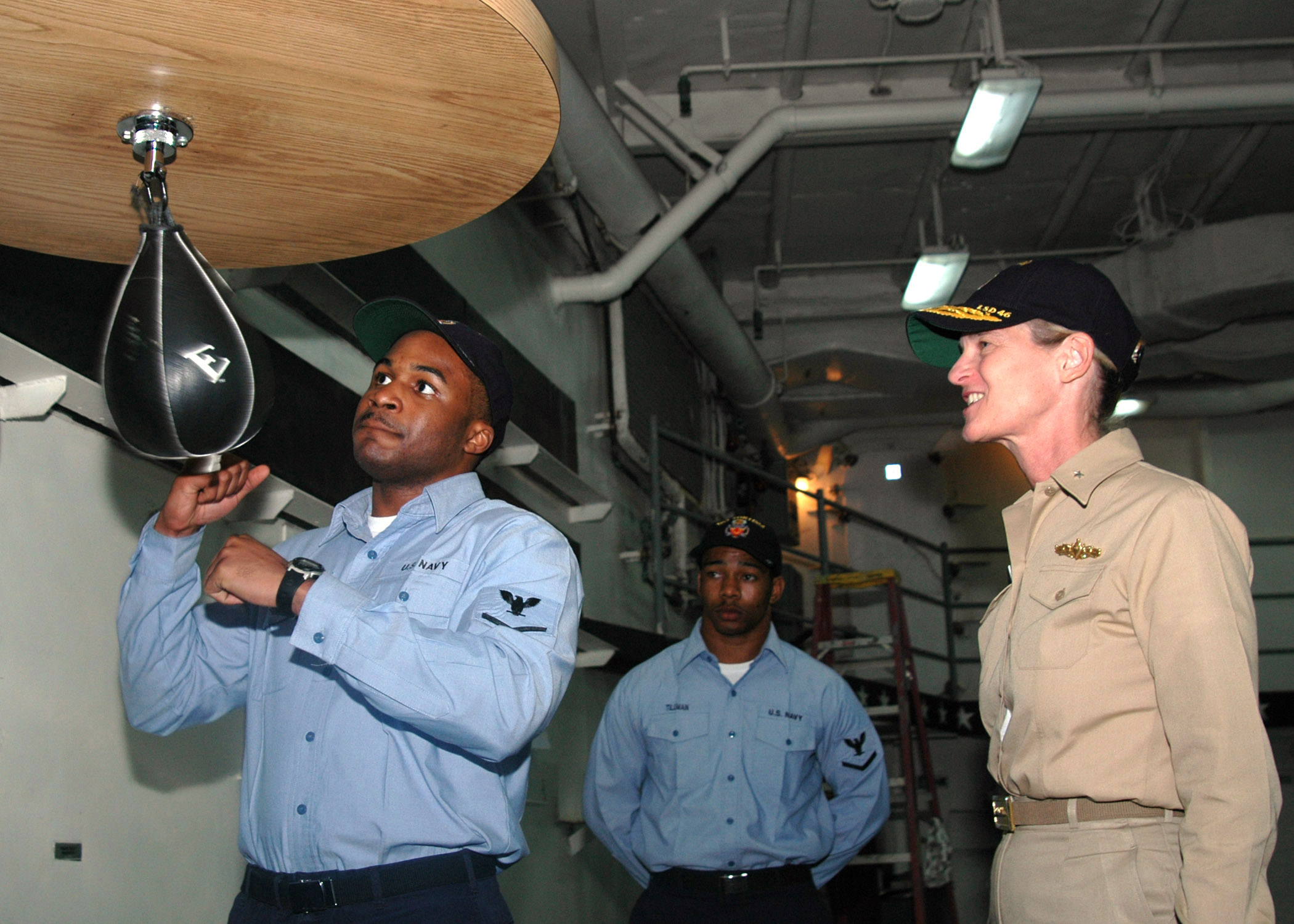 Sasebo, Japan (April 17, 2007) - Information System Technician 3rd Class Anthony Seay demonstrates the proper way to hit a speed bag during a visit to the ship by Commander, Amphibious Force, U.S. 7th Fleet, Rear Adm. Carol M Pottenger. Pottenger related to the crew the importance of operational and personal readiness in the form of education and savings. Amphibious transport dock ship USS Tortuga (LSD 46) is assigned to Commander, Expeditionary Strike Group 7/Task Force 76, the Navy’s only forward-deployed amphibious force. U.S. Navy photo by Mass Communication Specialist Seaman Brandon Myrick (RELEASED)